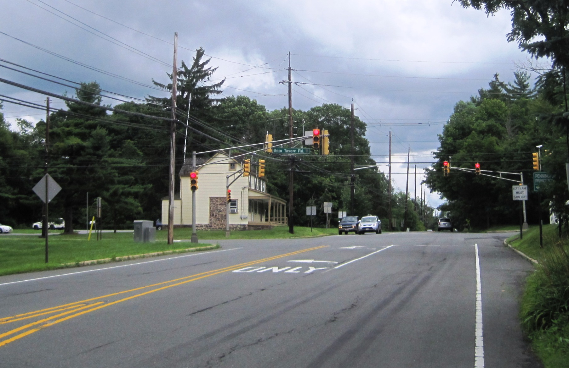 Photo of the unincorporated community of Bear Tavern, New Jersey within Hopewell Township, Mercer County. Photo taken along eastbound Washington Crossing-Pennington Road (County Route 546) approaching Bear Tavern Road (CR 579).